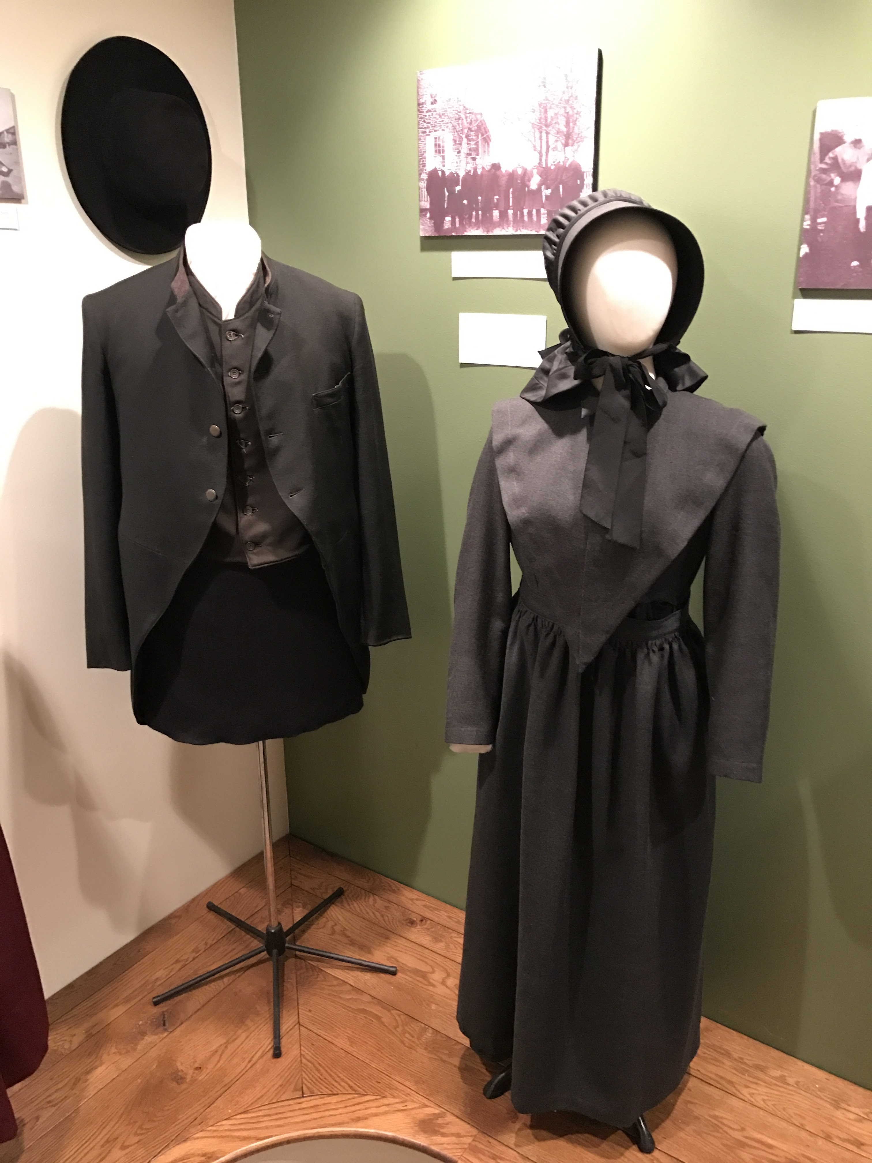 Historic clothing at Mennonite Heritage Center, Harleysville, Pennsylvania